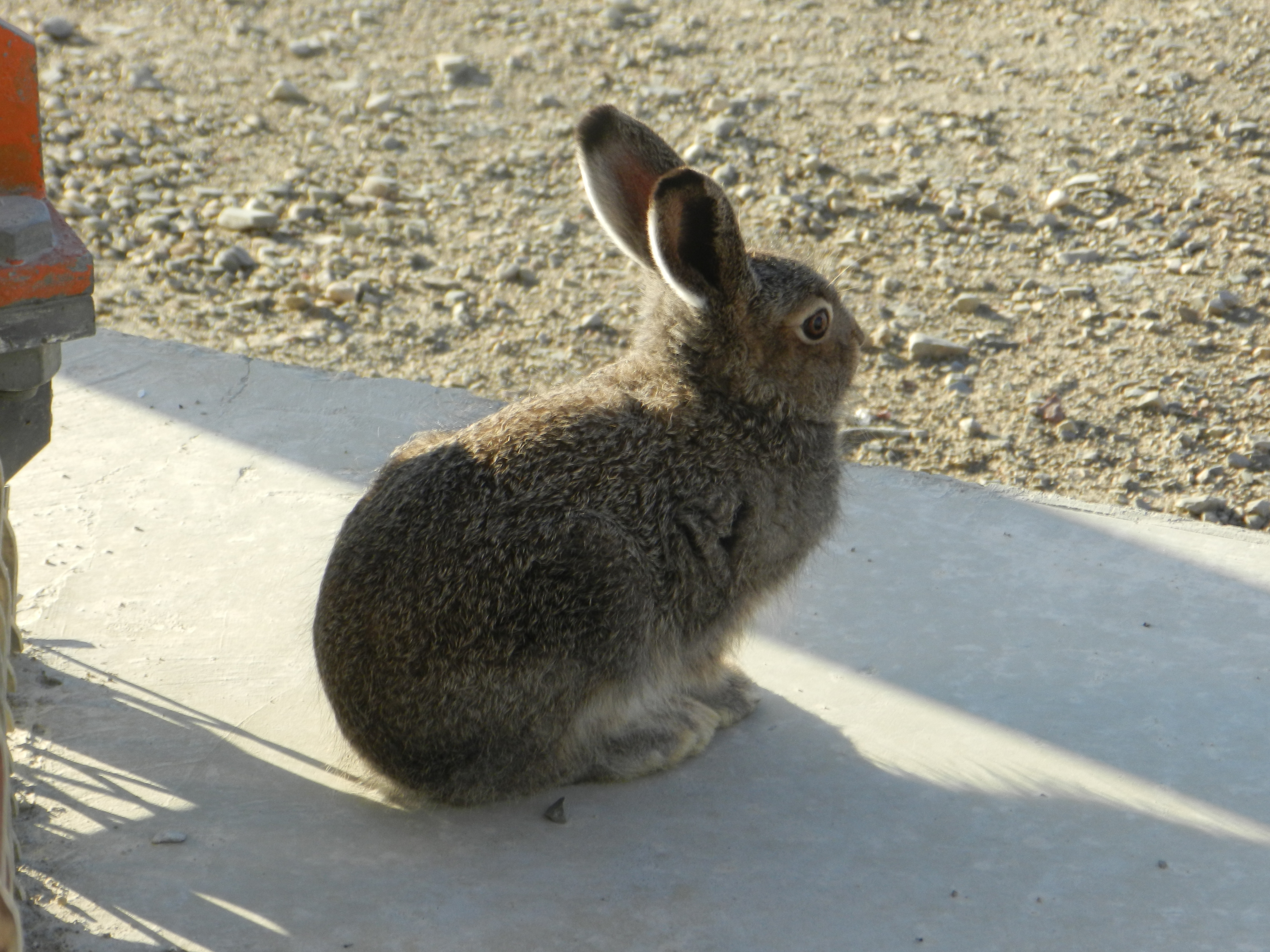 Young Arctic hare in summer coat